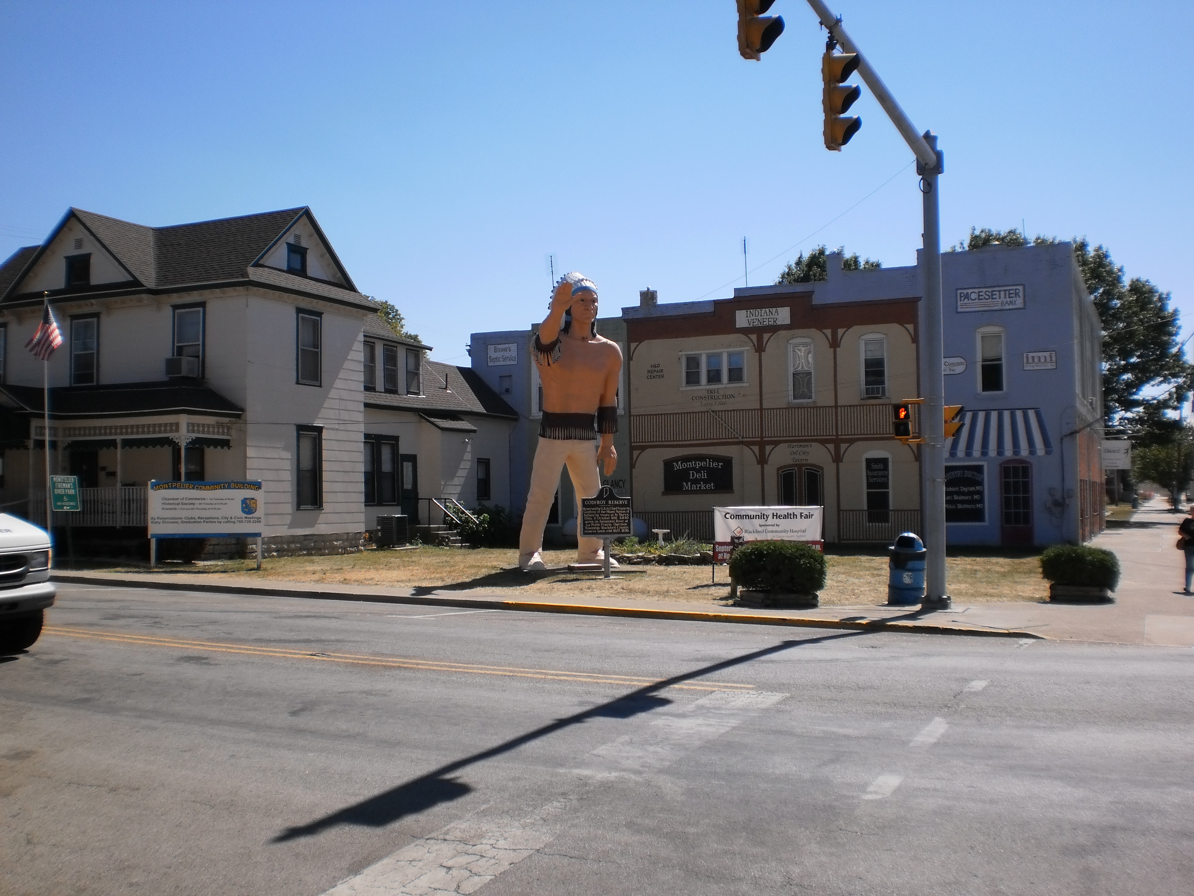 Statue of Miami Chief Francis Godfroy, located in downtown Montpelier, Indiana.